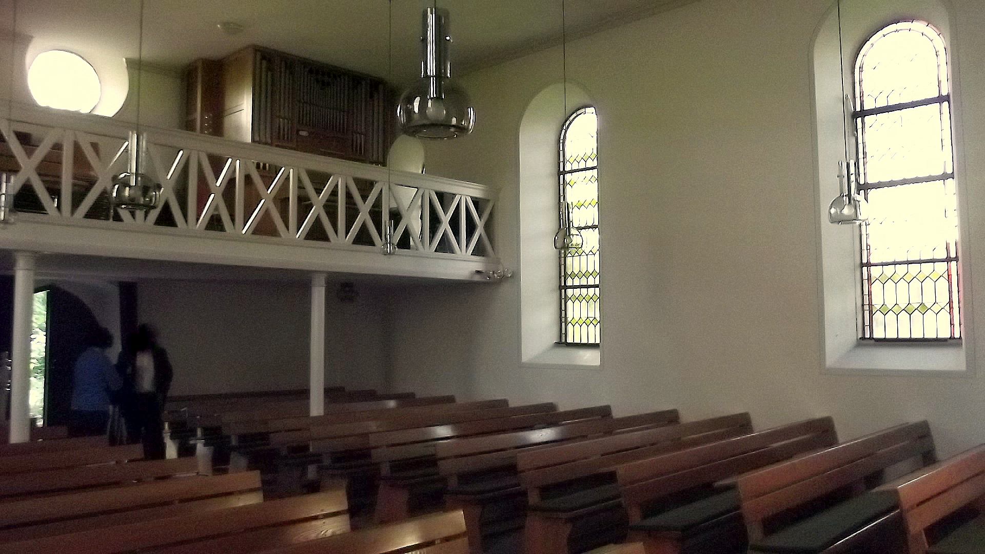 Interior of the protestant church in Dörrenbach, Saarland, Germany